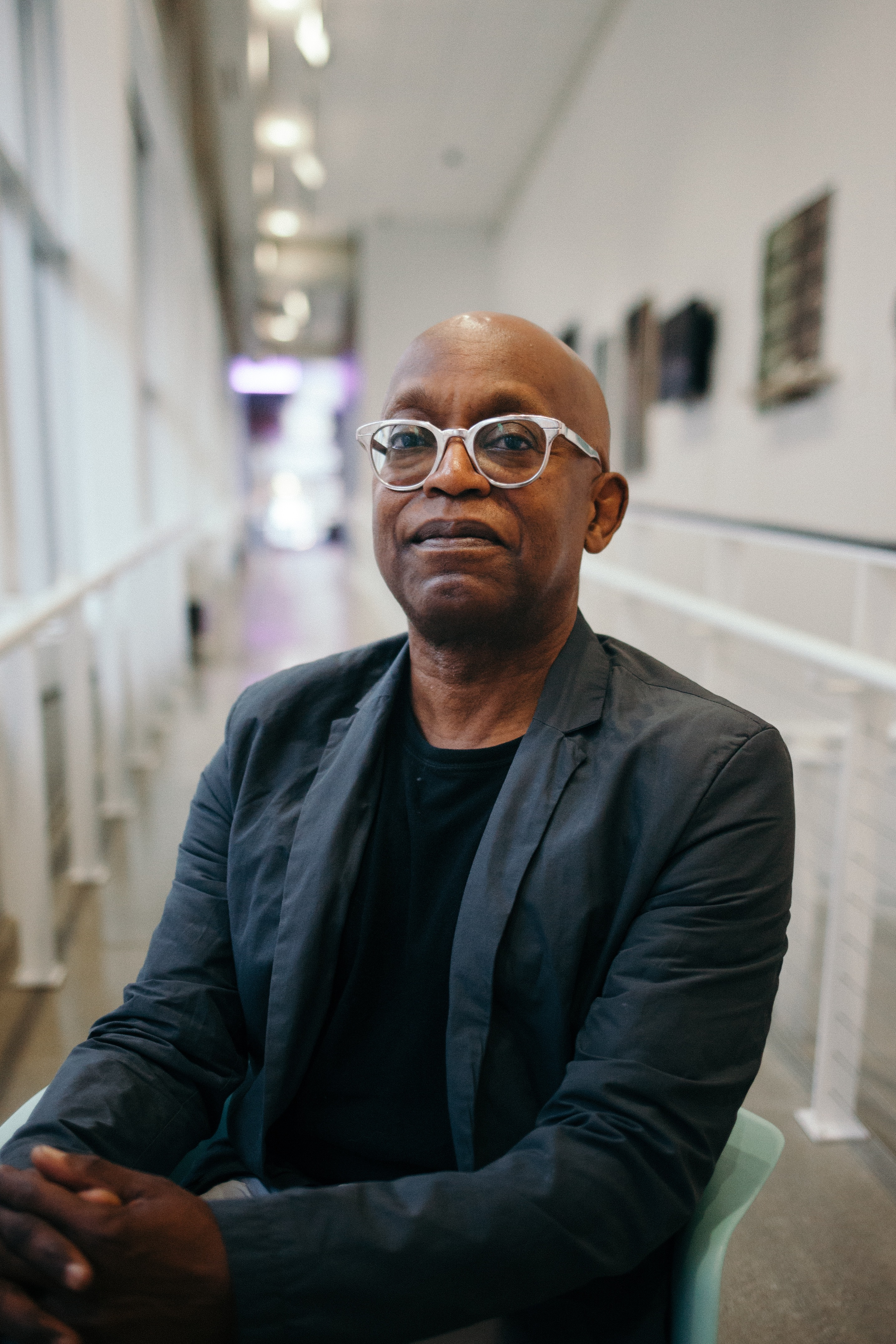 A half length portrait of Seitu Jones. Jones is wearing a dark grey suit, wearing white glasses, and sitting in a long hallway.